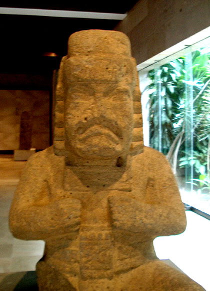 photo of an olmec jaguar baby sculpture from the Museum of Anthropology at Xalapa, Vera Cruz, Mexico.